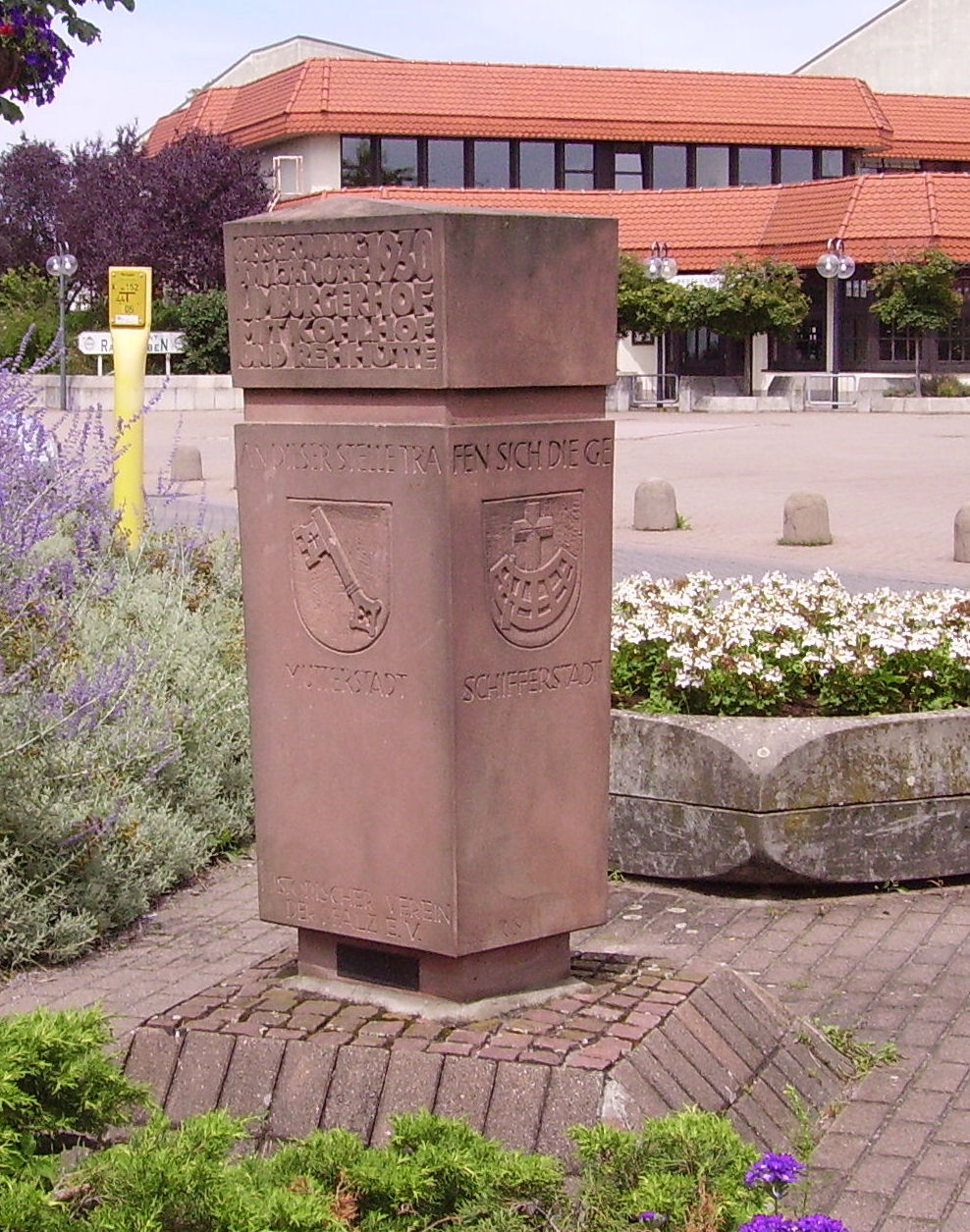 view of Limburgerhof, Germany